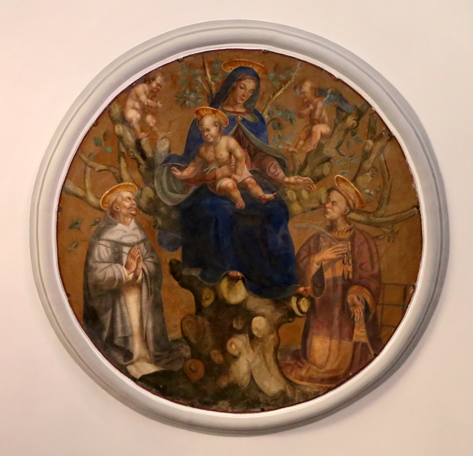 Santa Maria della Quercia (Viterbo) - Interior